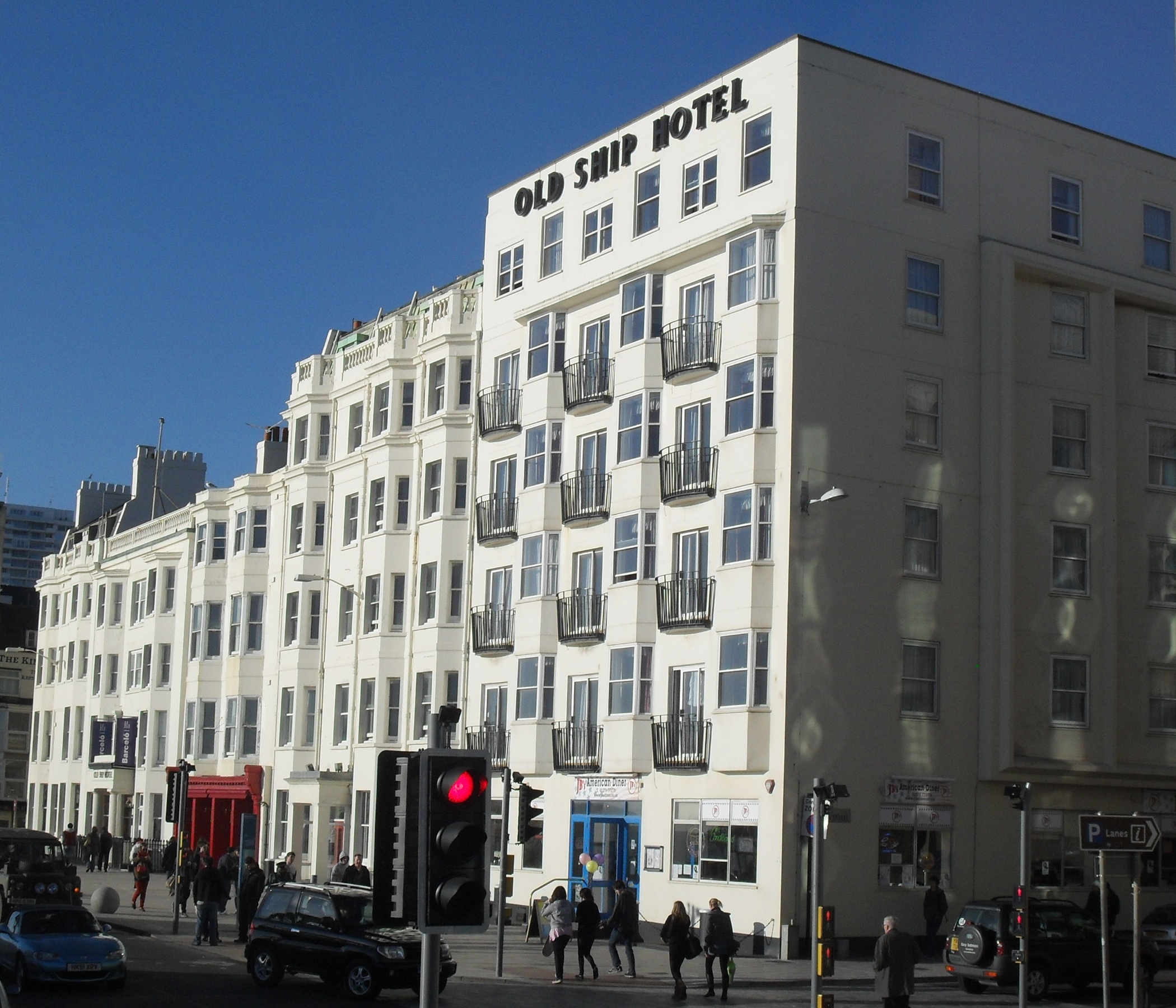 Old Ship Hotel, Kings Road, Brighton, City of Brighton and Hove, England. One of Brighton's oldest and most famous hotels. The main building (seen here) is locally listed, but its assembly room on Ship Street has Grade II* listed status.